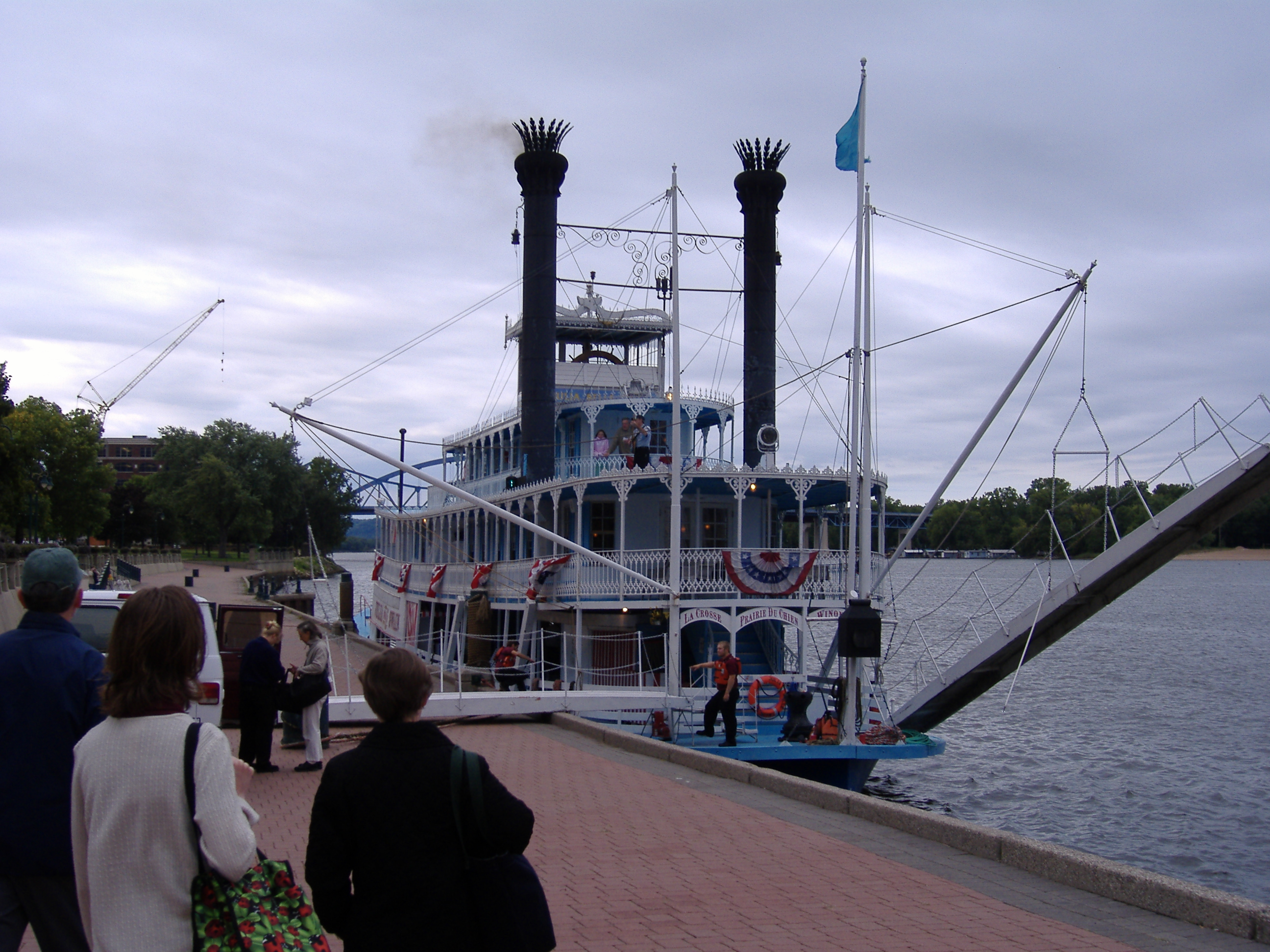 Steamboat Julia Belle Swain docked in La Crosse, Wisconsin September 8, 2007